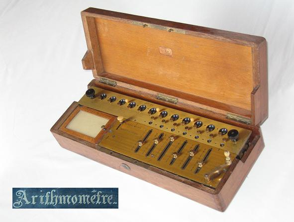 Arithmometer built around 1887. At bottom-left is a separate image of the delicate brass lettering (taken from another arithmometer of the same vintage